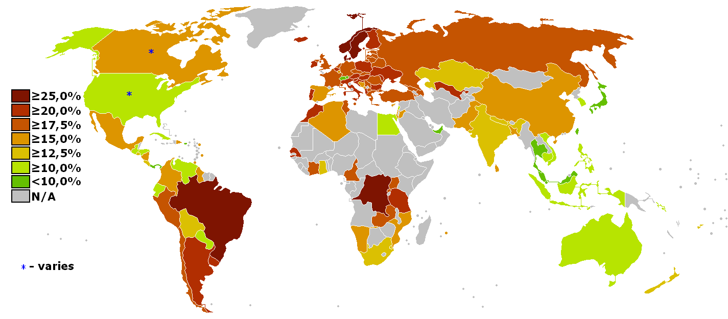 Tax rates around the world: VAT rate/G&S Tax rate (the highest rate) by countries